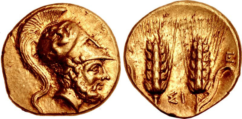 Golden tetrobol from Metapontion, 280-297 B.C., depicting founder Leukippos